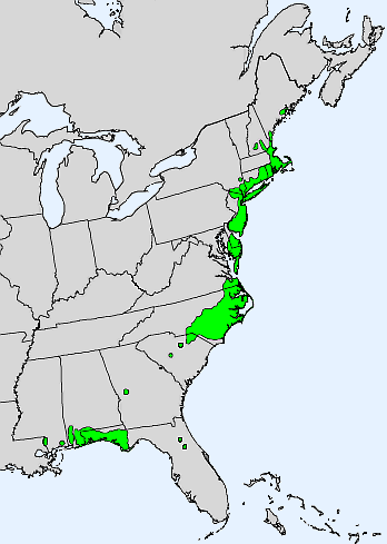 Range map of Chamaecyparis thyoides